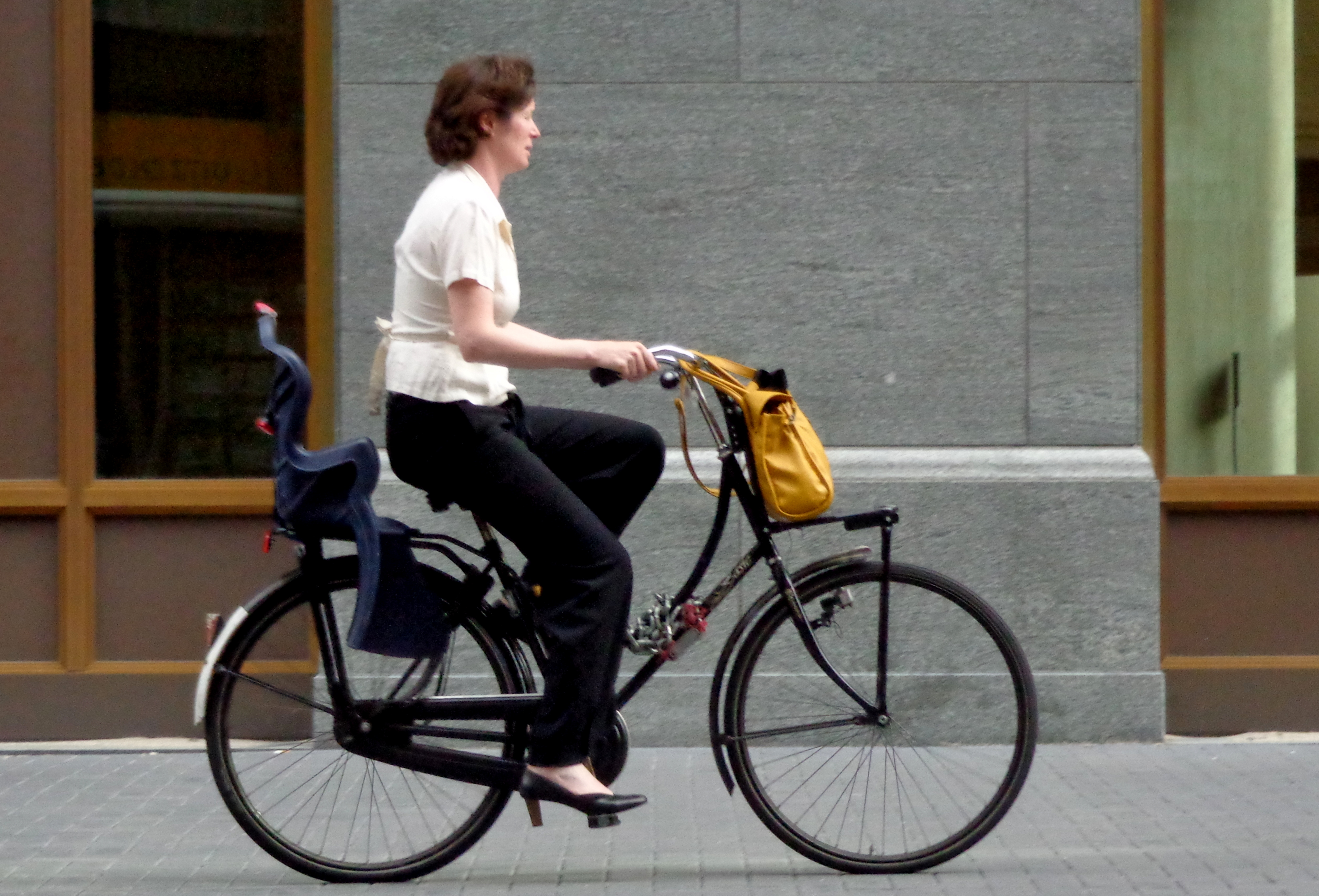 Bicycle in The Hague city-centre